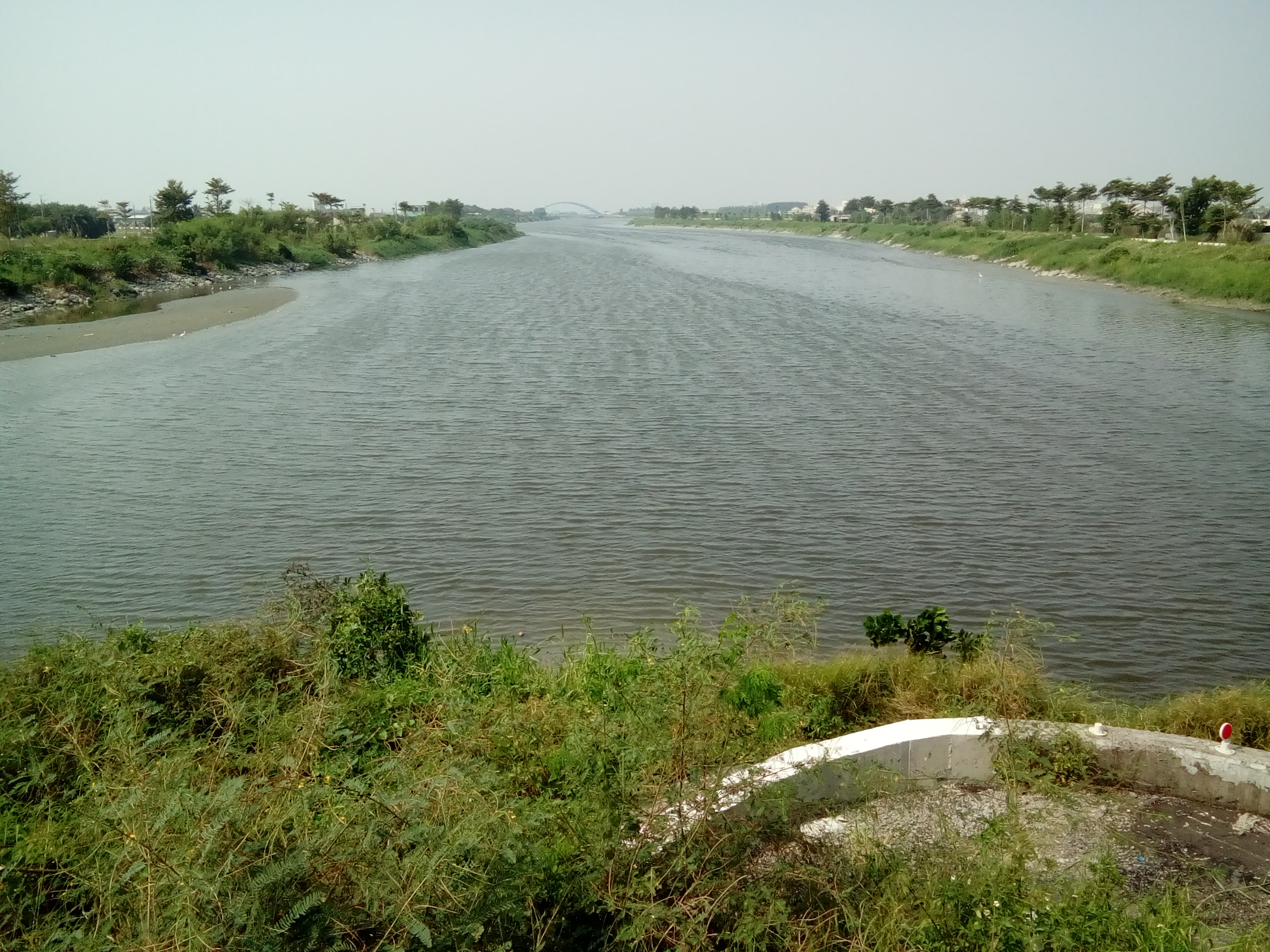 Jiangjun River in Jiali, Tainan, Taiwan